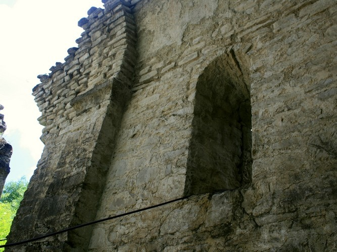 Medieval ruins at Cheremi, Kakheti, Georgia